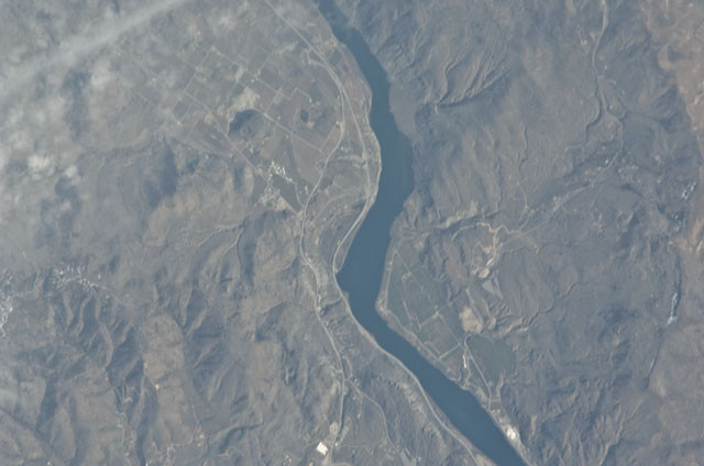 NASA view of Omak, Washington at the International Space Station